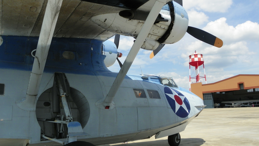 Fantasy of Flight's PBY Catalina